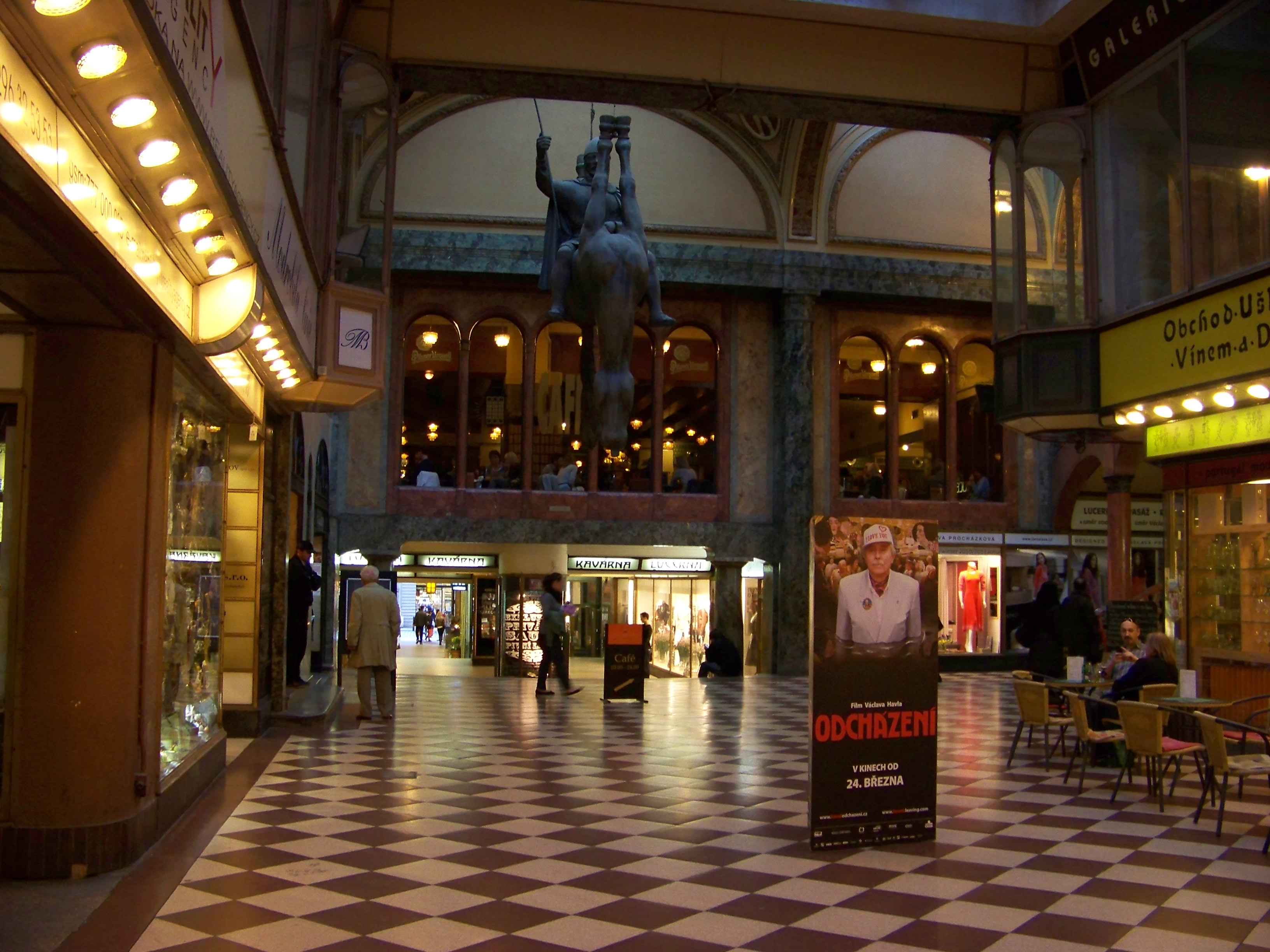 Prague-New Town, the Czech Republic. Lucerna Passage. - OpenStreetMap (Info)